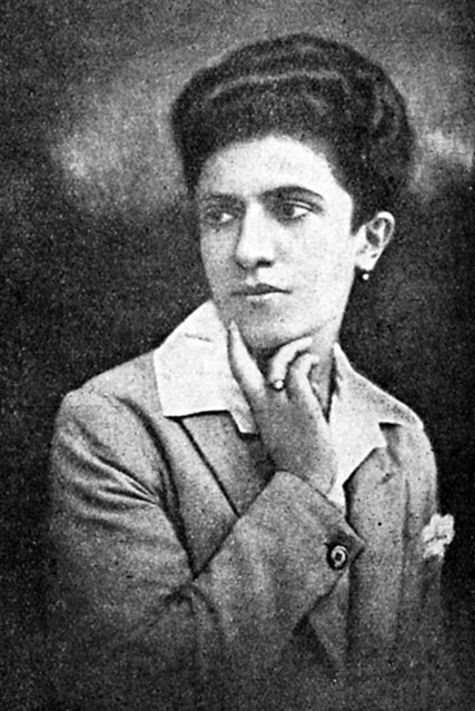 Mara Buneva's picture